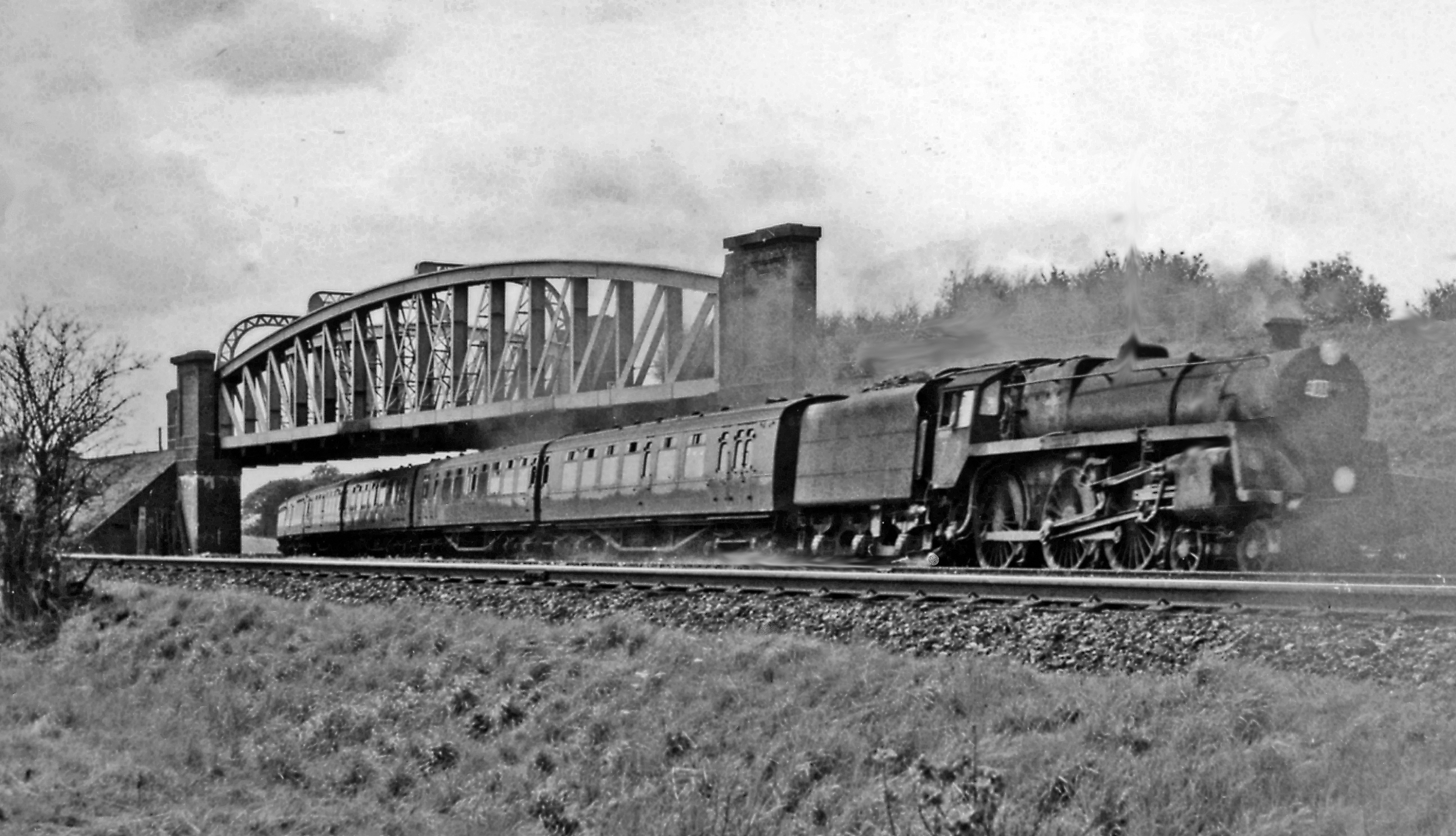 Cornwall - Waterloo express coming under the Battledown Flyover. View westward, towards Salisbury, Exeter etc., with the main lines from Southampton etc. on the flyover (Up) and in the foreground (Down): ex-LSW main lines from Waterloo via Basingstoke. The 08.10 from Wadebridge/09.00 from Bude to Waterloo was a dated Saturday Relief which ran for only eight Saturdays in July and August. Here it is coming up from Salisbury behind BR Standard 5MT 4-6-0 No. 73113 'Lyonesse', one of those which supplanted SR 'King Arthur' 4-6-0s and took their names: it was built 10/55, named 12/59, withdrawn 1/67, working throughout on the SR.